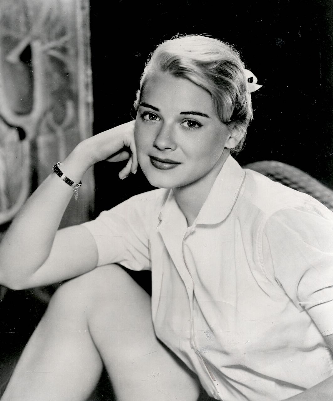 Press photo of Hope Lange, 1958